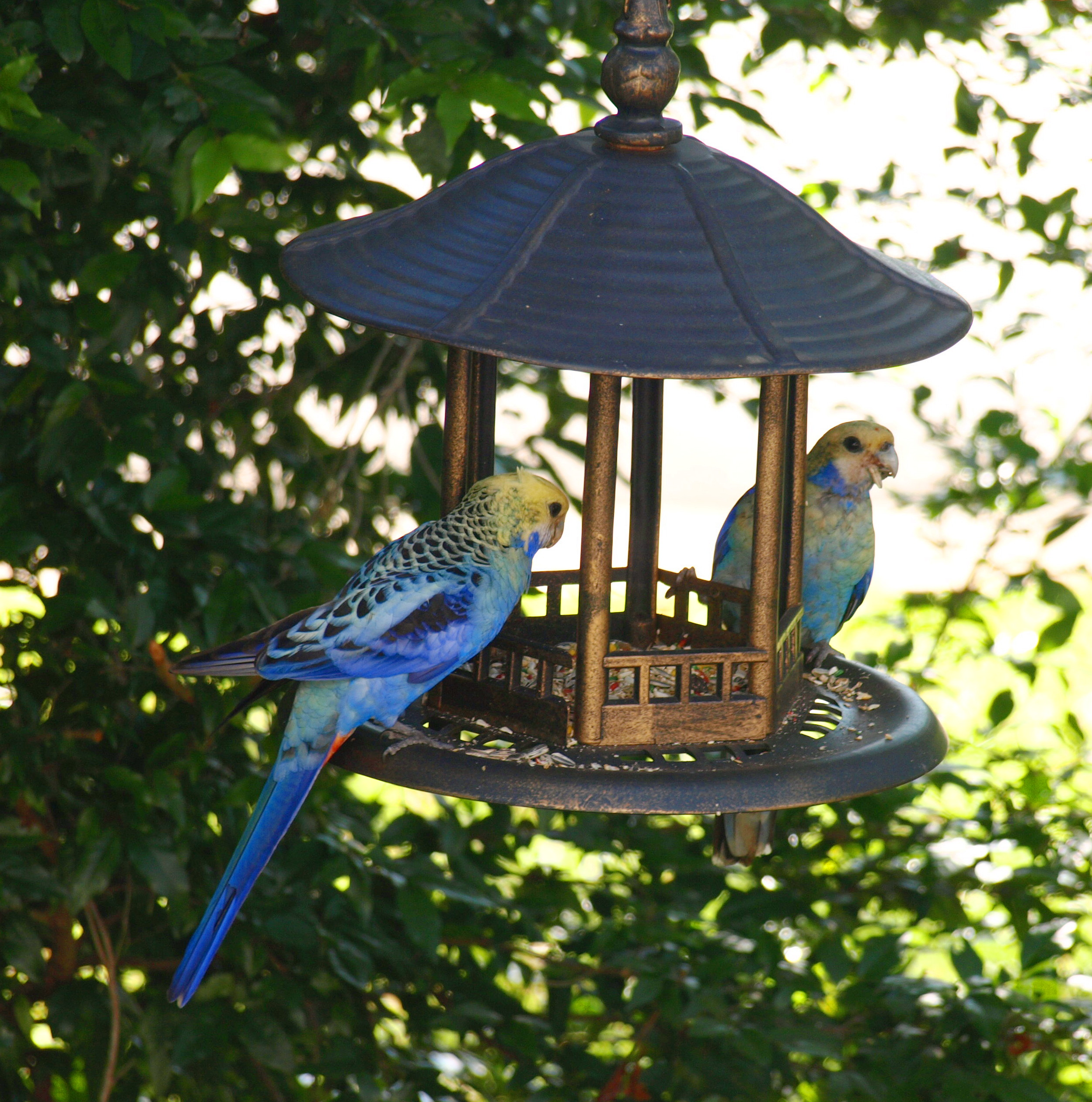 Pale-headed Rosella (also known as the Mealy Rosella, Moreton bay Rosella and Blue Rosella) on a bird feeder in Atherton Tablelands, Queensland, Australia.